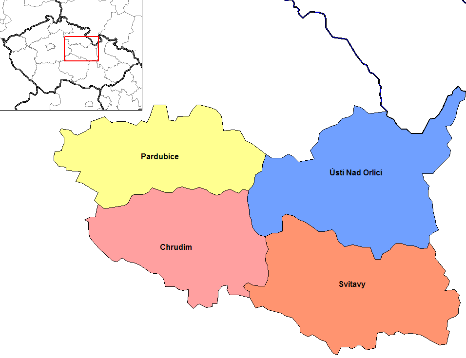 Map of the districts of Pardubice region of the Czech Republic. Created by Rarelibra 15:14, 2 January 2007 (UTC) for public domain use, using MapInfo Professional v8.5 and various mapping resources.